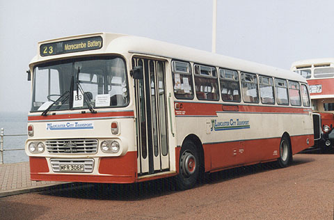 Preserved Leyland Leopard with Alexander Y Type bodywork in the livery of Lancaster City Transport, at Blackpool